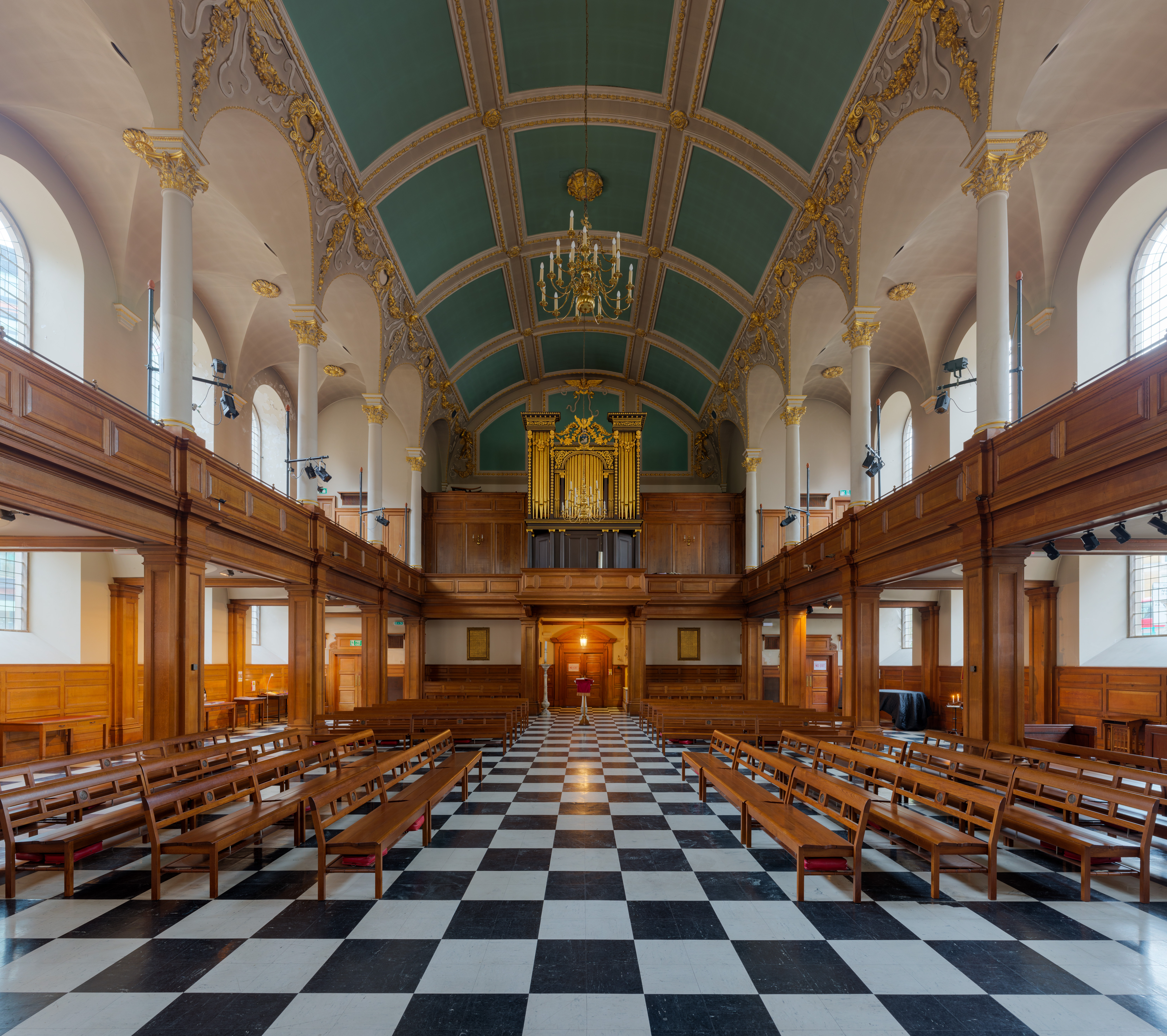 St Andrew, Holborn, in London, England. Facing west towards the organ and trance.